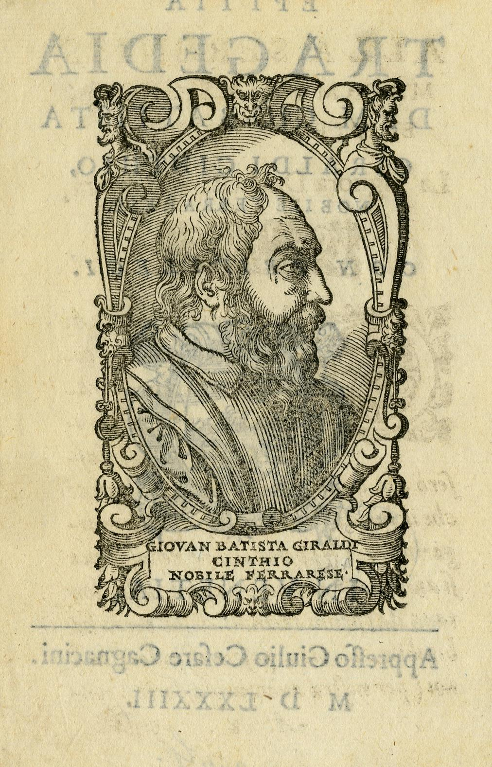 Portrait of Giovanni Battista Giraldi Cinthio, bust, in profile, facing right, wearing a doublet; within a strapwork frame with a lettered cartouche; frontispiece to Cinthio's "Epitia" (Venice: Giulio Cesare Cagnacini, 1583) Woodcut